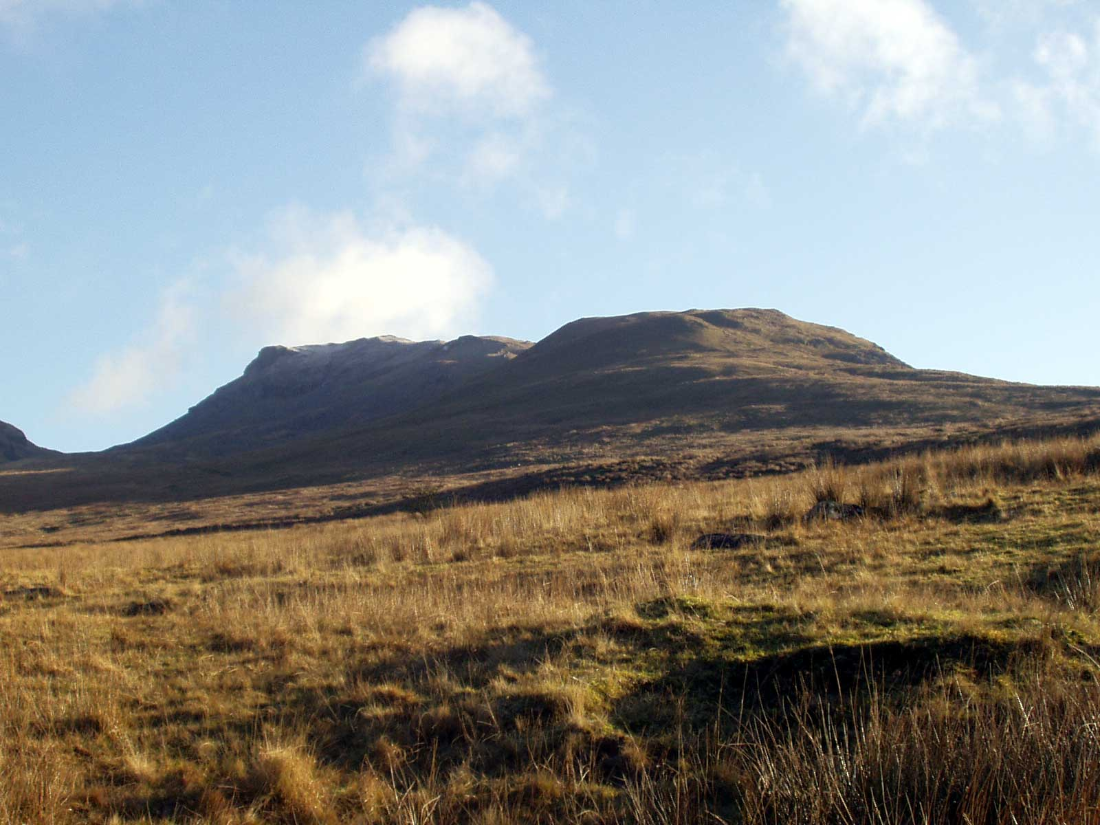 Photo of Moelwyn Bach.